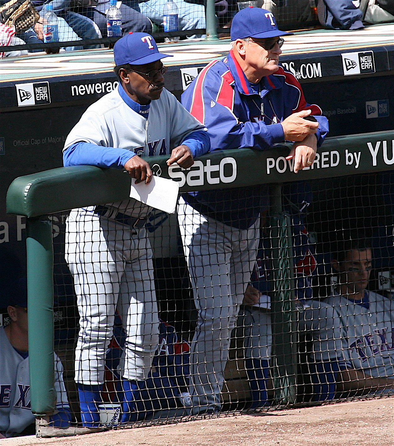 Ron Washington and Art Howe in the dugout.